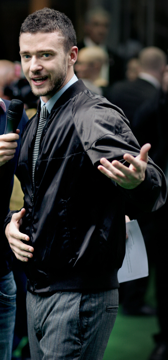 Justin Timberlake at the Shrek the Third London premiere.